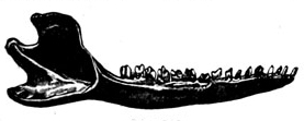 Amphitherium jaw.